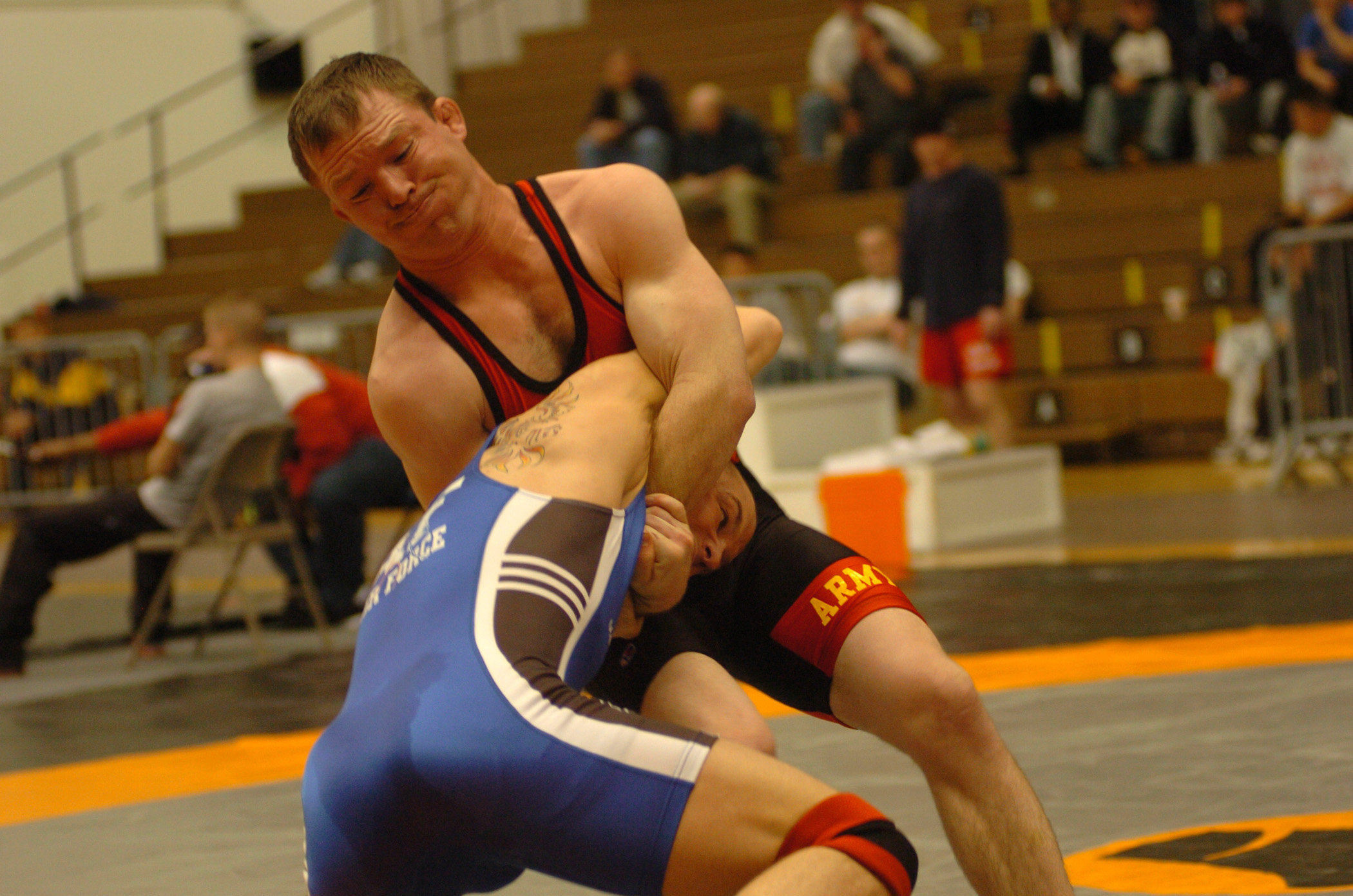 Army Sgt. Oscar Wood (top), a 2004 Olympian, locks down on Senior Airman Johnny Gunn in the 66-kilogram/145.5-pound freestyle division of the 2005 Armed Forces Wrestling Championships at the U.S. Olympic Training Center in Colorado Springs, Colo. Wood won the match, 7-0, 2-0. Photo by Tim Hipps.